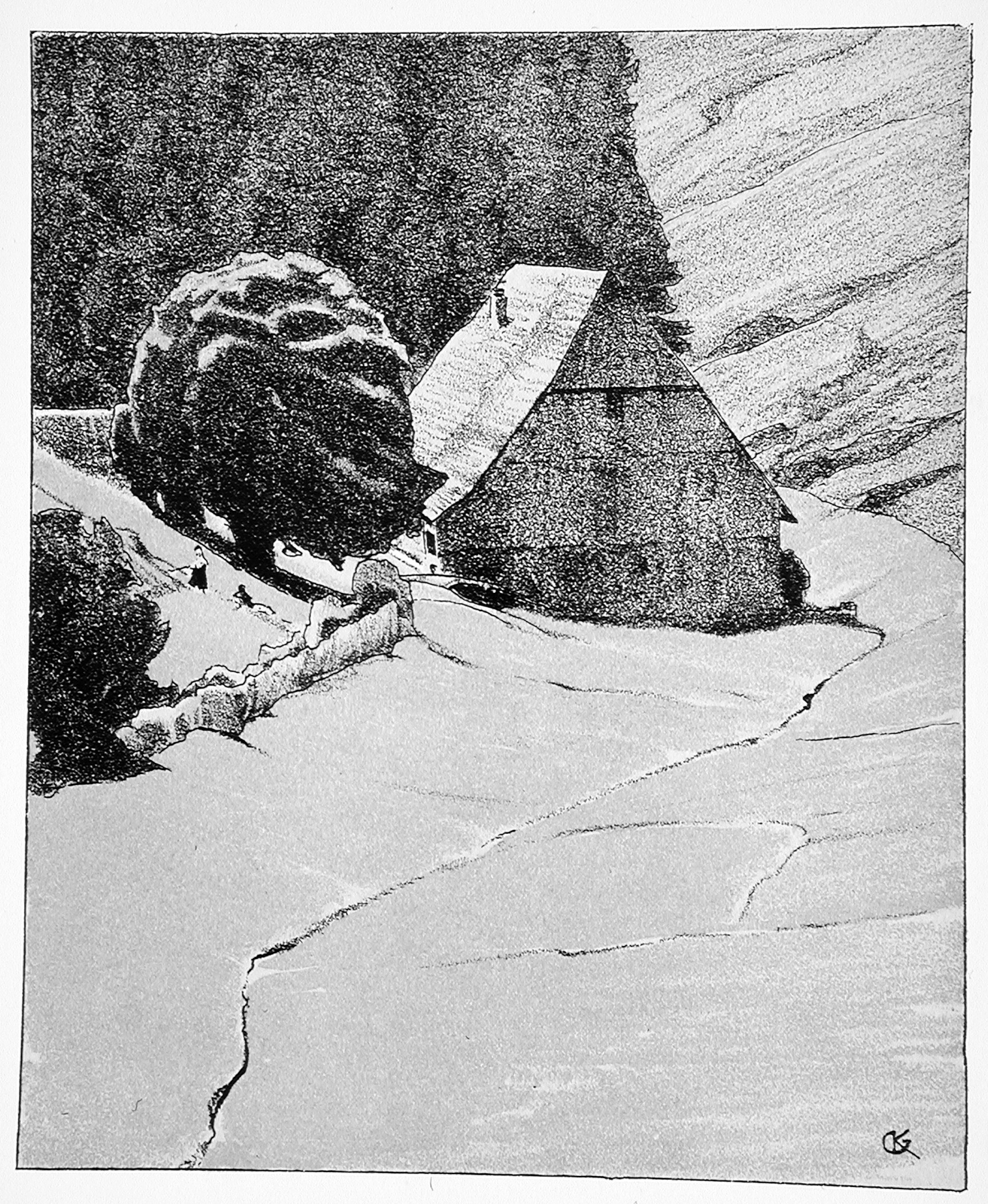 Germany, circa 1898 Alternate Title: Thalmühle Volume, number, page: 4, no. 3 (1898); following page 188 Prints; lithographs Lithograph printed in beige, dark blue, and lime green on wove paper Image: 8 7/16 x 6 15/16 in. (21.43 x 17.62 cm) The Robert Gore Rifkind Center for German Expressionist Studies, purchased with funds provided by Anna Bing Arnold, Museum Associates Acquisition Fund, and deaccession funds (83.1.1357d) German Expressionism